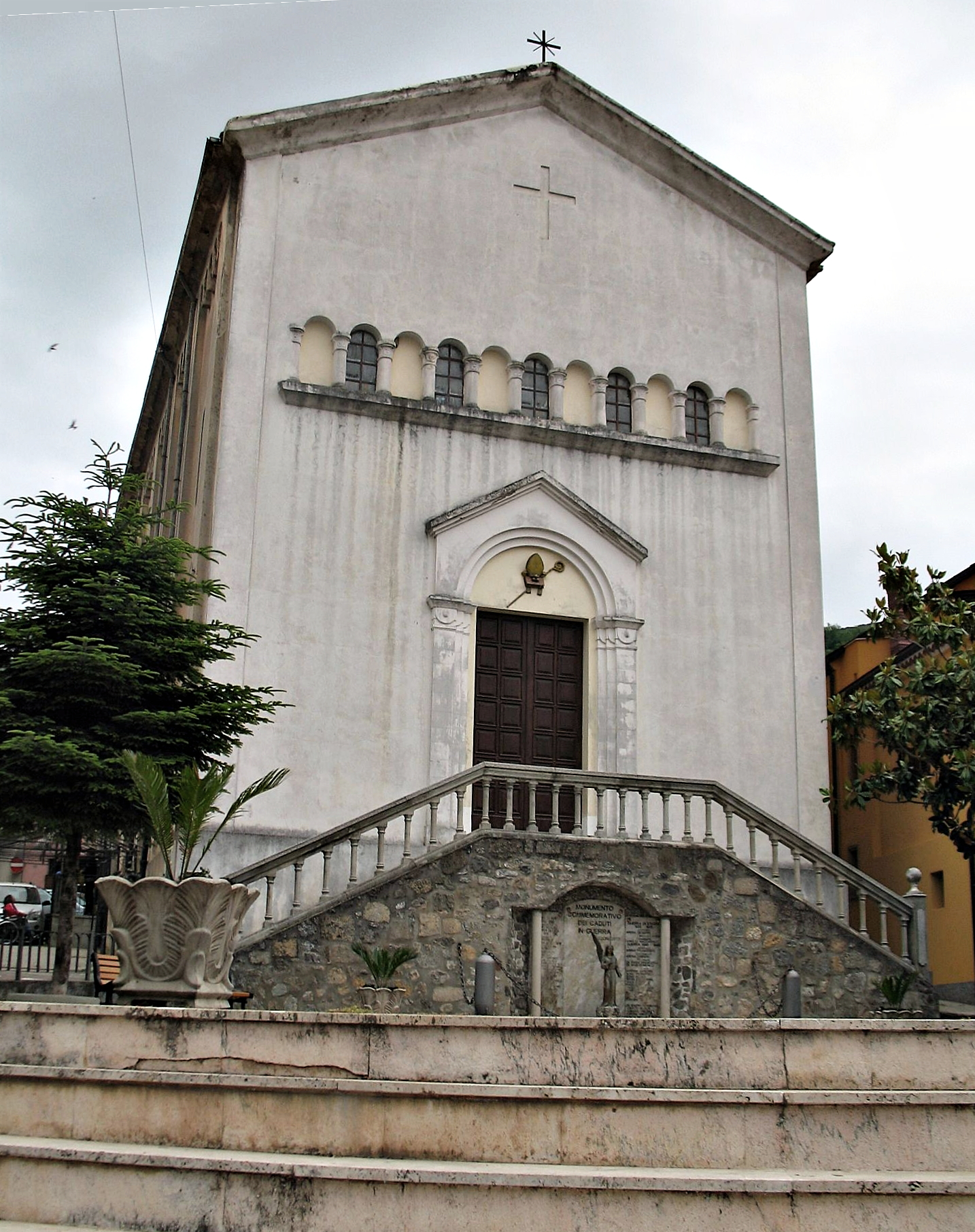 Pizzoni (ViboValentia) Church